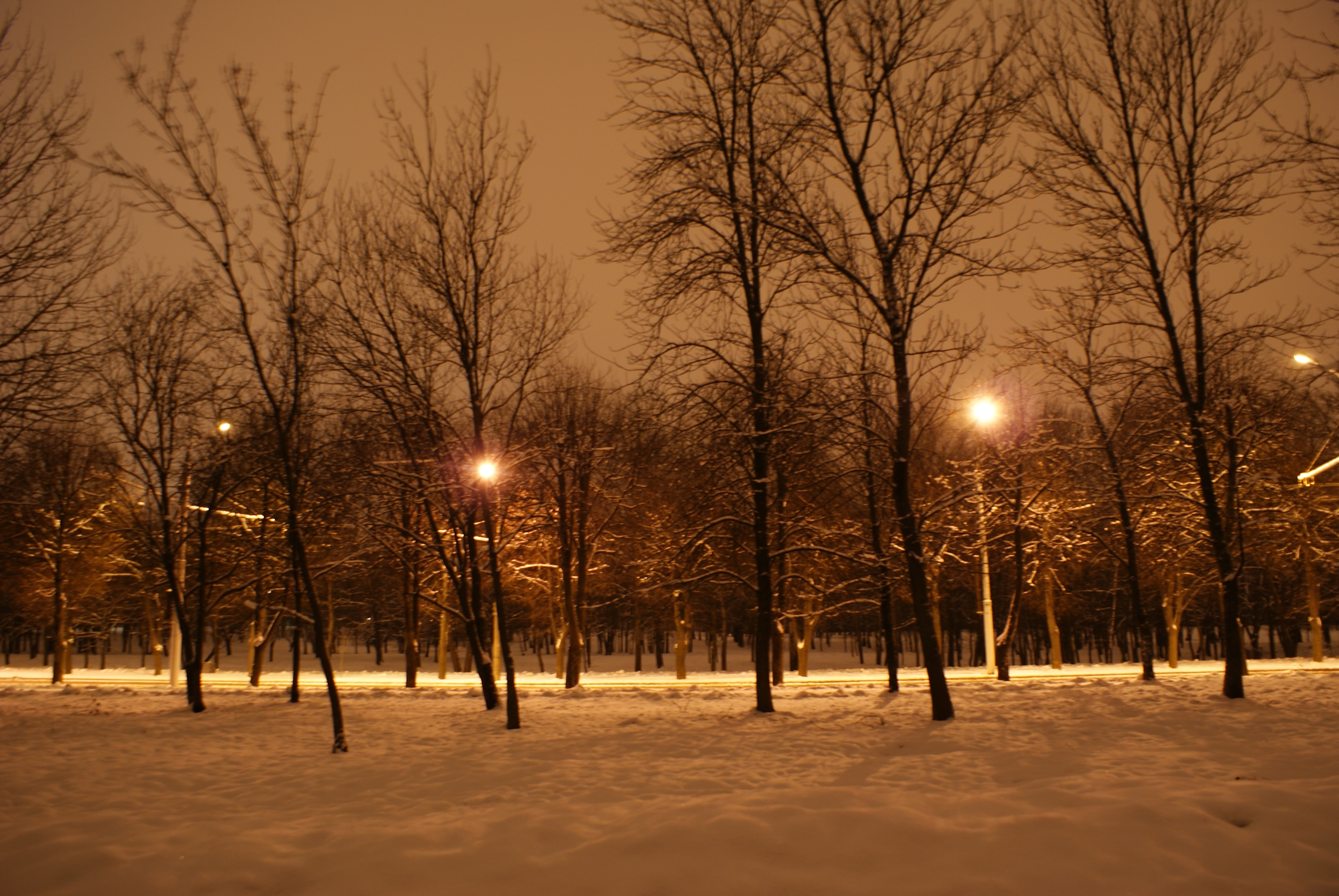 Sevastopol'sky park winter night